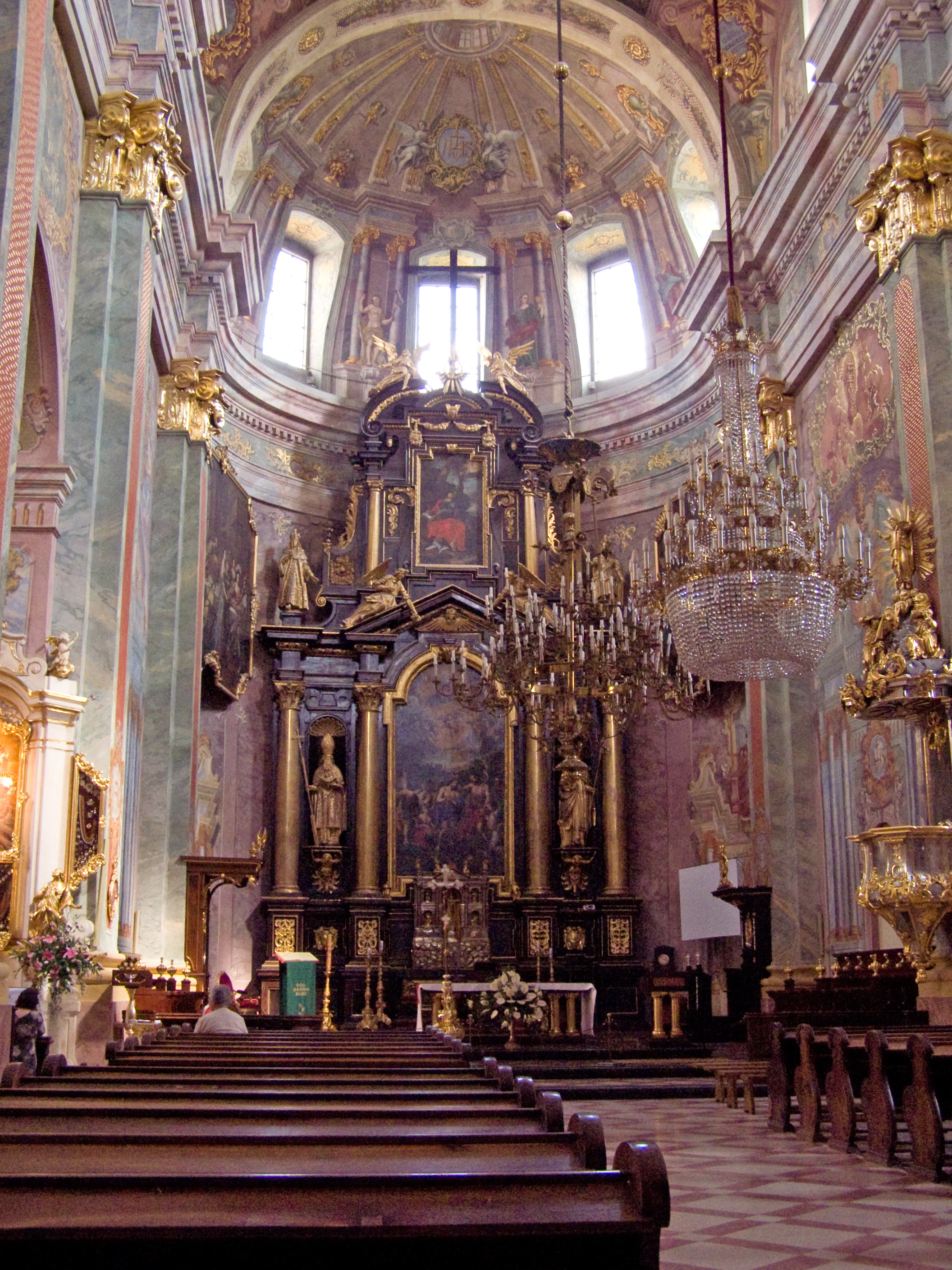 The interior of the Cathedral in Lublin, chandelier, polychrome.